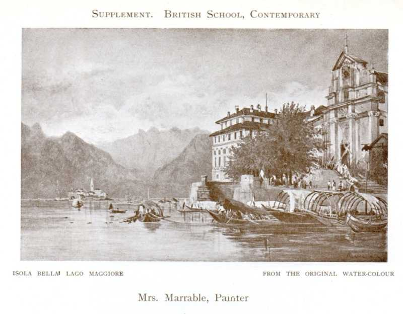 1905 print after page of Women painters of the world, from the time of Caterina Vigri, 1413-1463, to Rosa Bonheur and the present day, by Walter Shaw Sparrow, The Art and Life Library, Hodder & Stoughton, 27 Paternoster Row, London